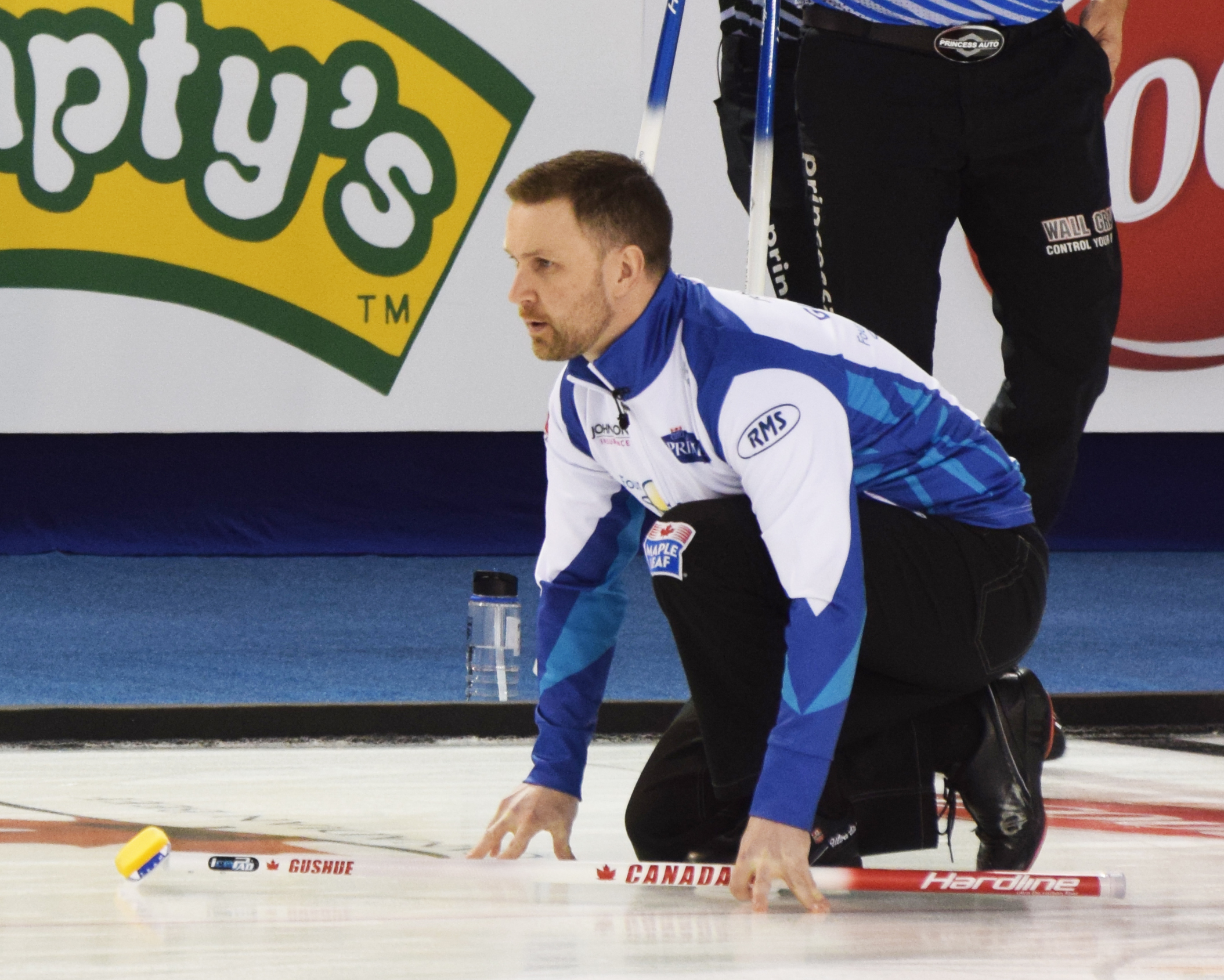 Brad Gushue watches his shot at the 2018 Elite 10 Grand Slam of Curling event in Winnipeg, Manitoba.